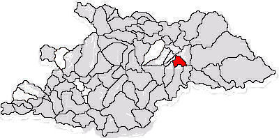 Limits of Bodgan Vodă commune in Maramureş County